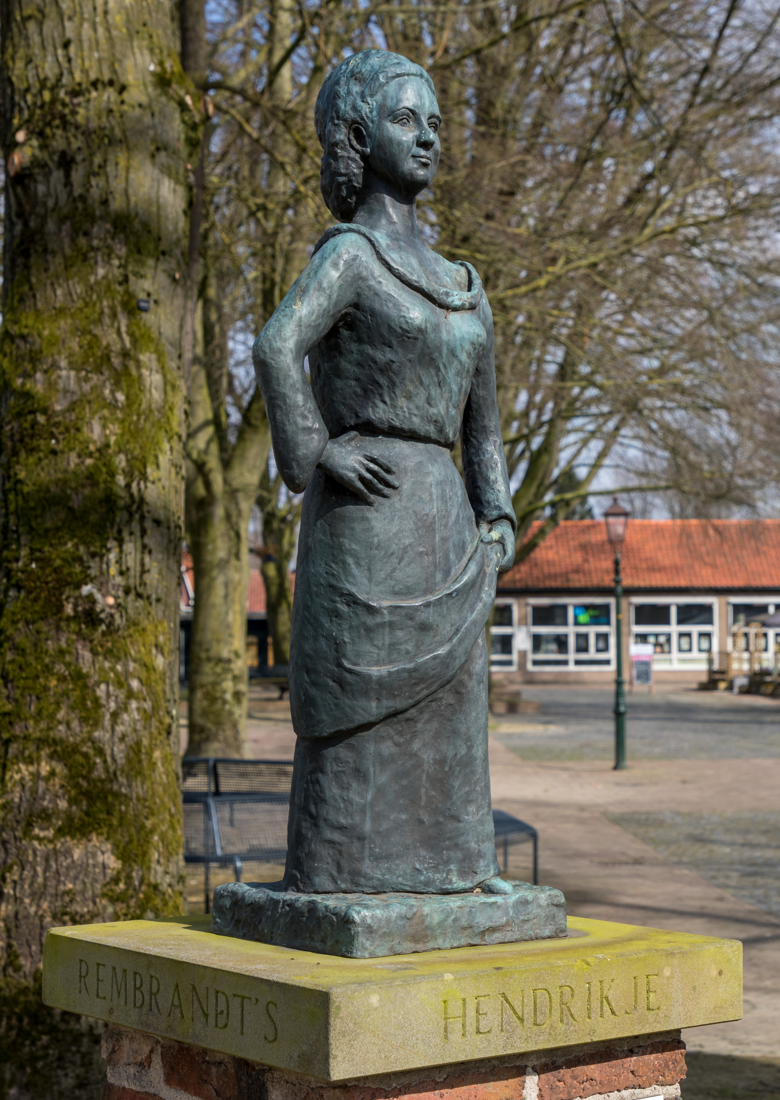 Statue “Hendrickje Stoffels” (Truus Doodeheefver-Kremer, 1977) in Bredevoort, Gelderland, Netherlands Sculpture TitleHendrickje StoffelsArtistTruus DoodeheefverDate1977